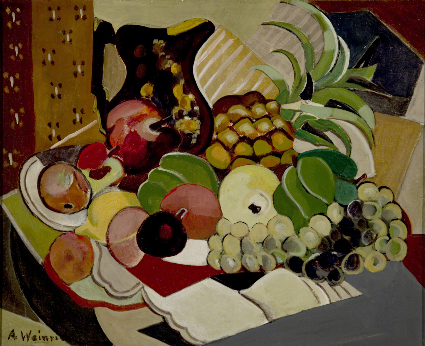 Still Life by Agnes Weinrich, circa 1926, oil on canvas, 17 x 22 inches. Permission to use granted by Christine M. McCarthy, Executive Director, Provincetown Art Association and Museum. The painting was the gift of Warren Cresswell.